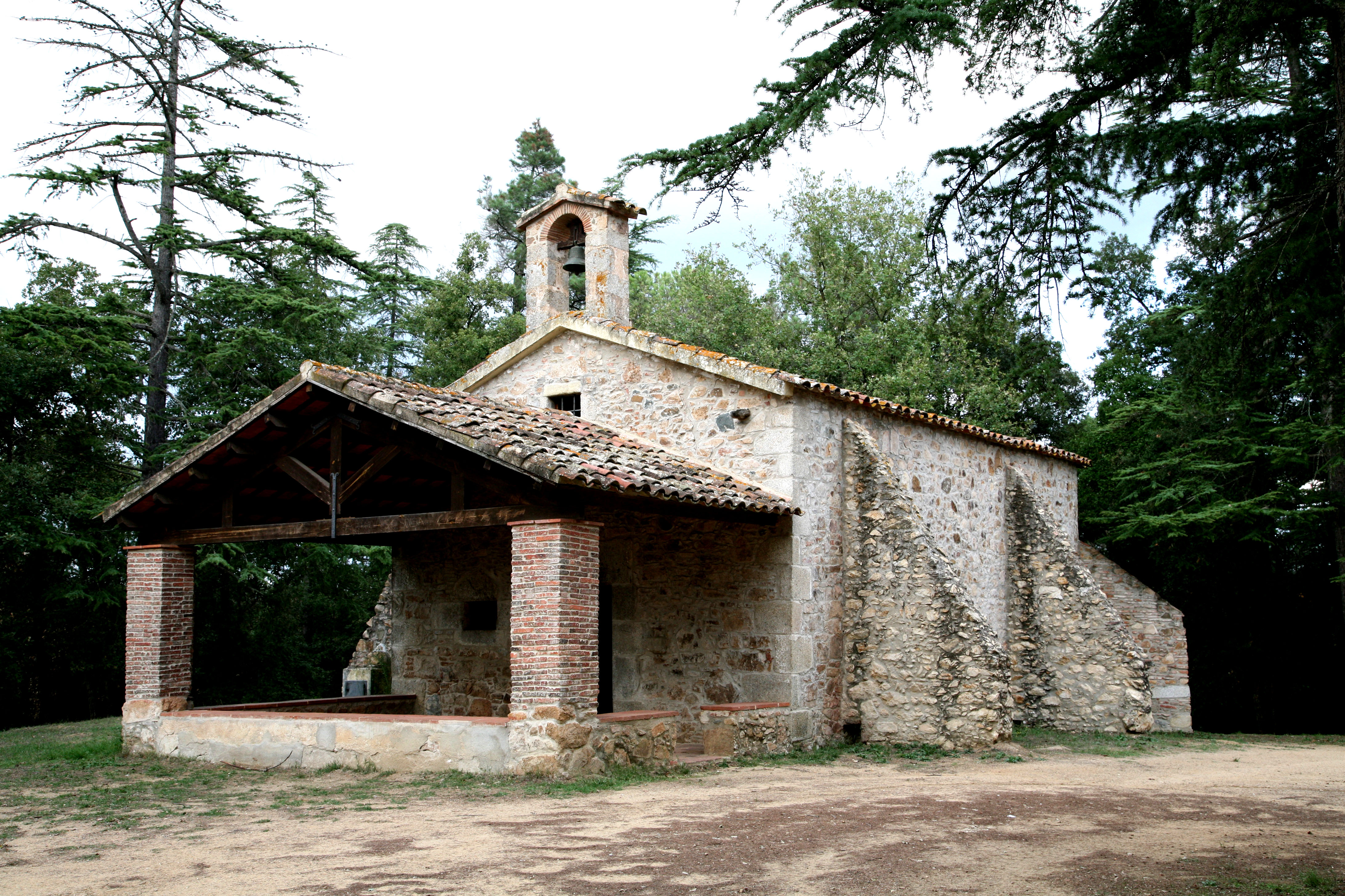 IPA-9259 Tordera Sant Hou Chapel, private property of Mas Talleda (IPA-9258 )